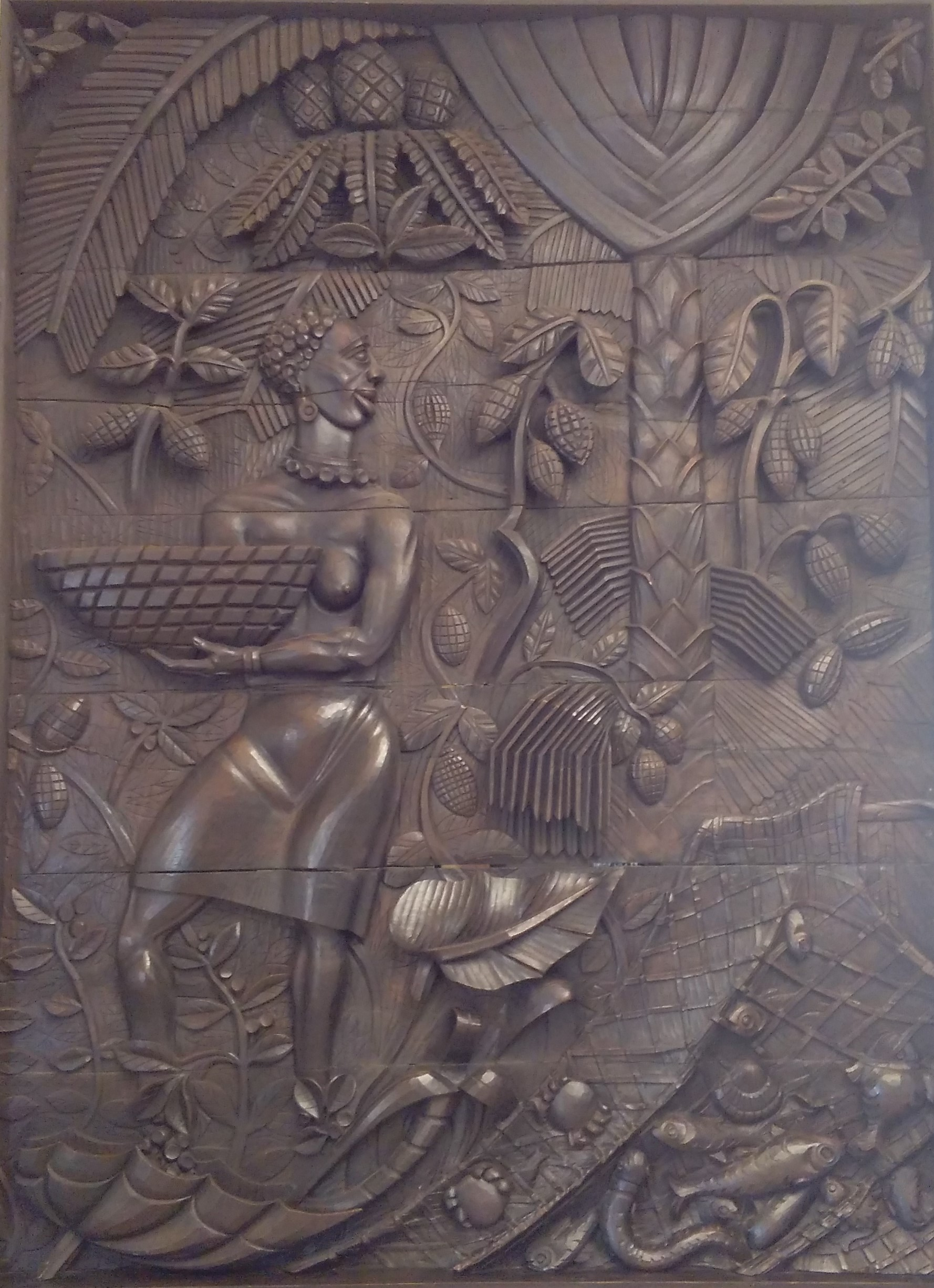 Wood relief in the Palace of the Counts of Calheta in Lisbon, Portugal. This was presumably carved for the Exposição do Mundo Português in 1940.